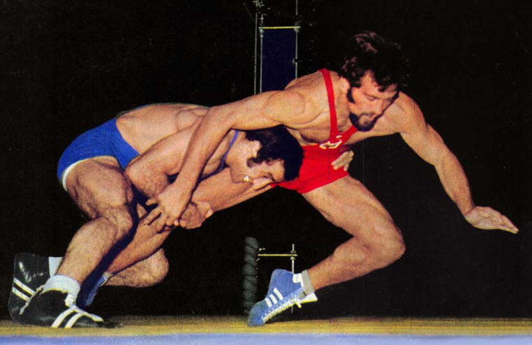 Mansour Barzegar vs Adolf Seger at the 1973 World Championships in Tehran